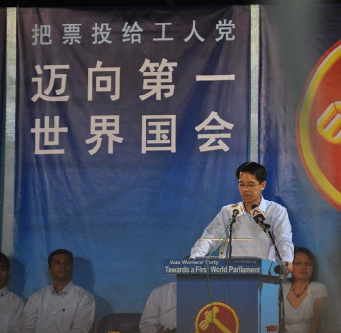 Workers' Party of Singapore candidate Gerald Giam at his party's rally at Bedok Stadium for the Singaporean general election, 2011.